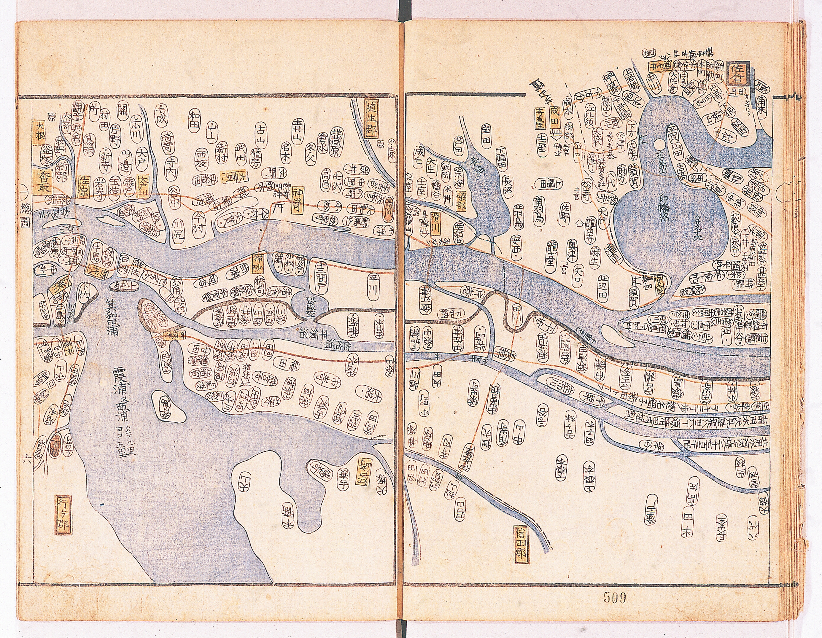 Lower part of Tonegawa-River,North of Tokyo.about 150 years ago'map.